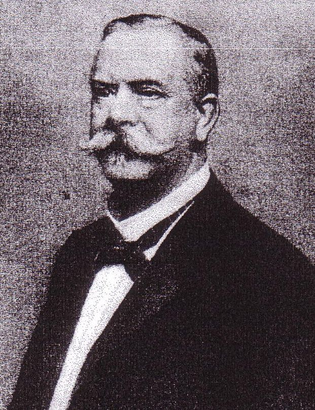 Photographic portrait of Wilhelm Begemann